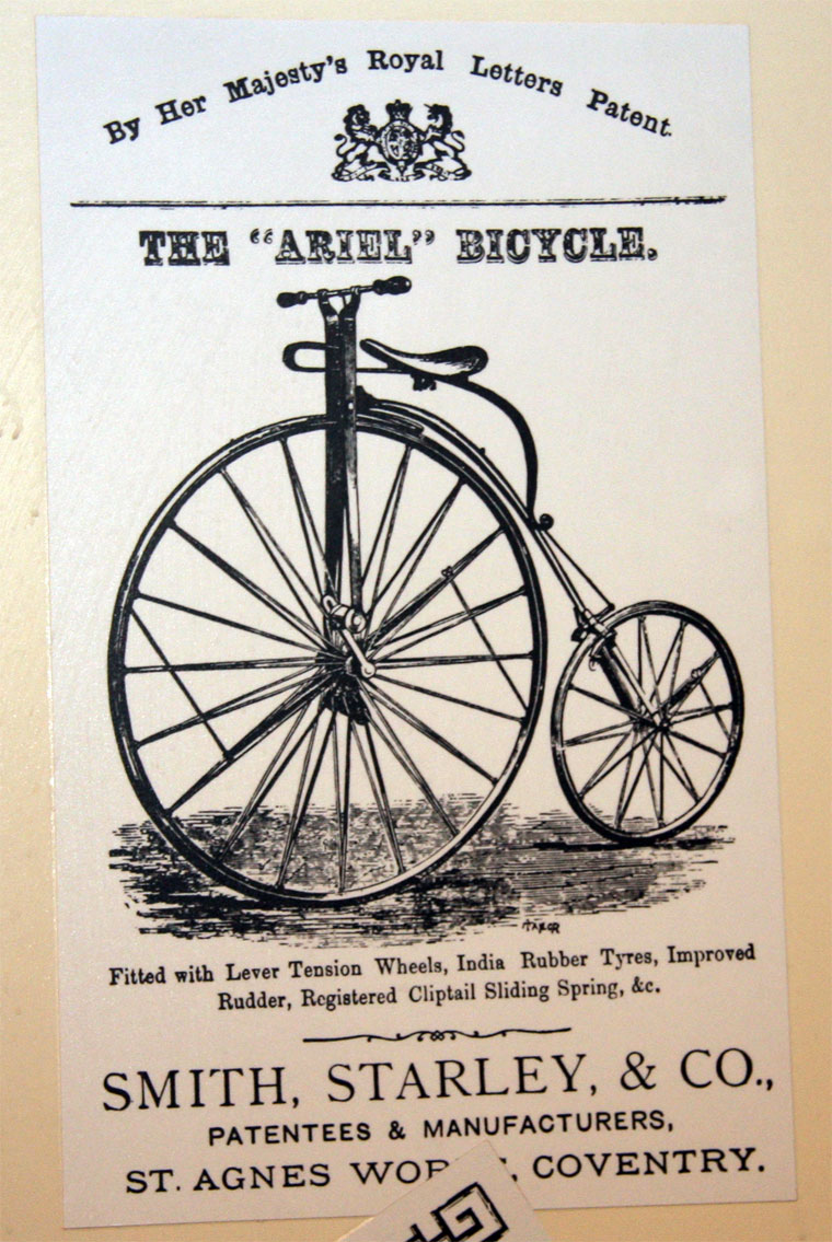 Advertisement for the Ariel Ordinary bicycle by Smith, Starley & Co. Patented in 1870 by James Starley and William Hillman, the Company manufactured it until 1874 when it licenced sole production to Haynes & Jefferis, Ariel Works, Coventry.